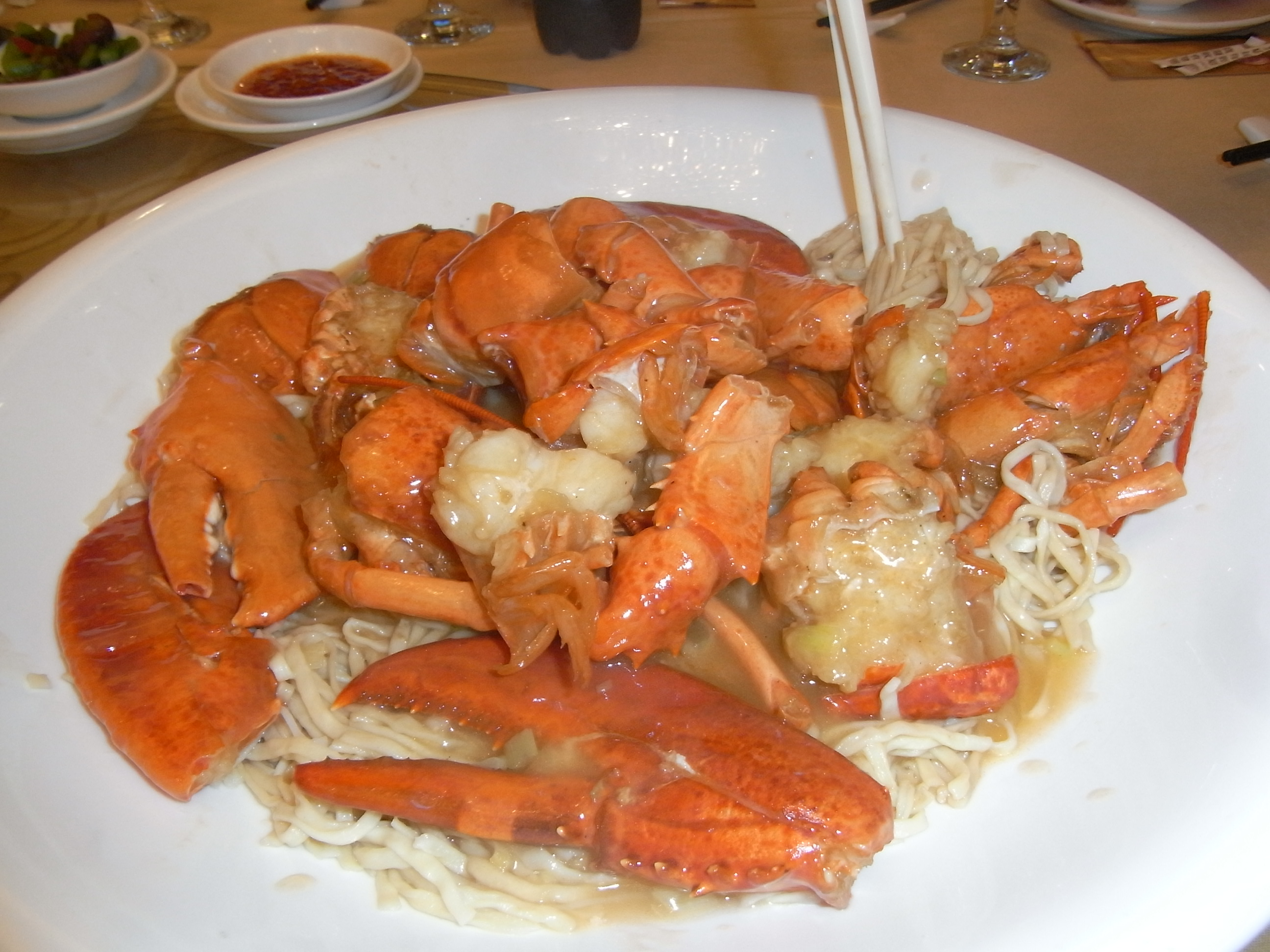 西環 寶湖海鮮酒家, Treasure Lake Seafood Restaurant, Hill Road, Shek Tong Tsui, Hong Kong